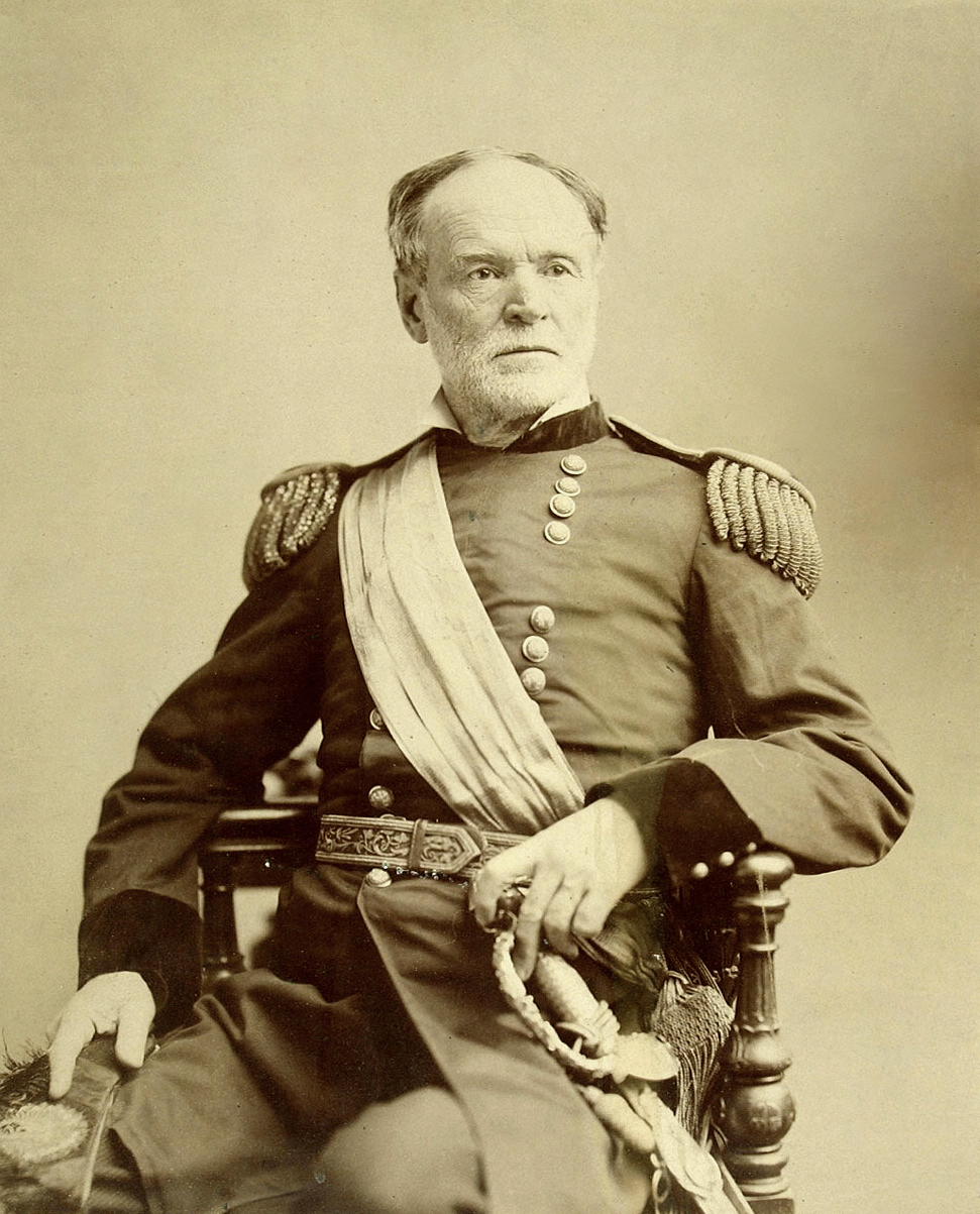 William Tecumseh Sherman